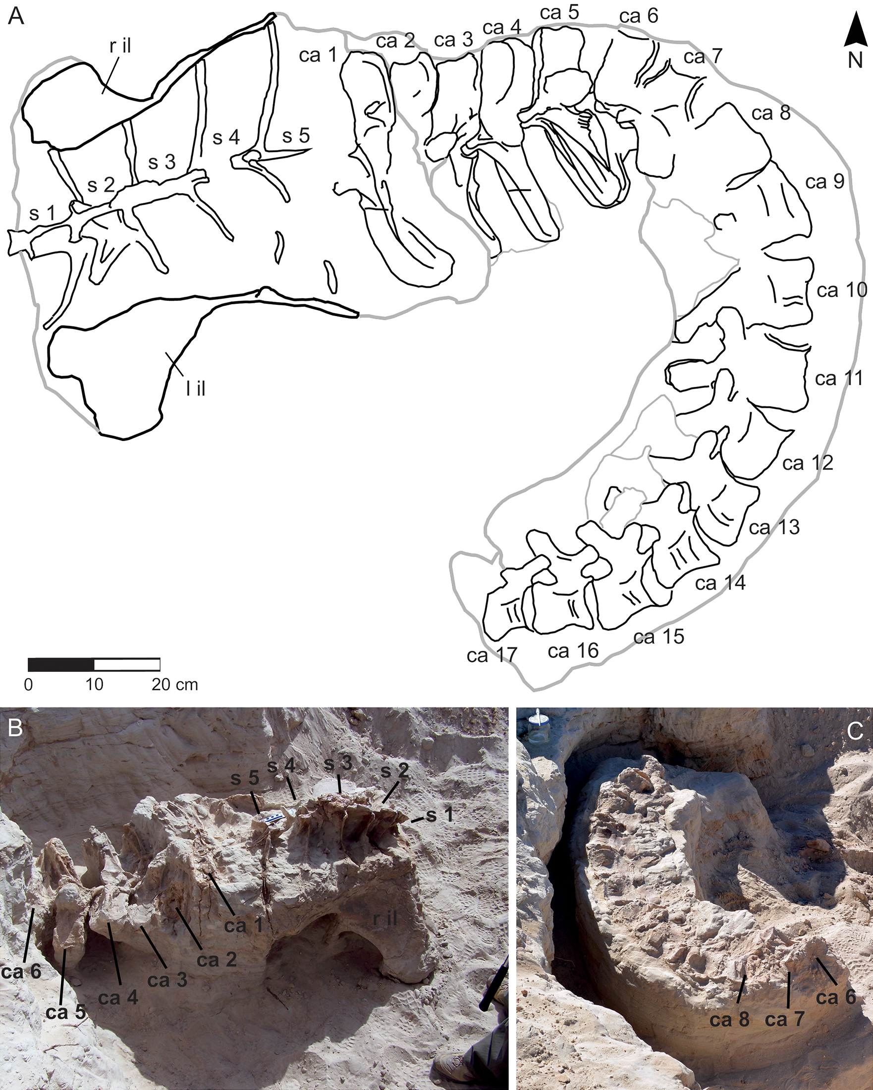 Preserved elements of Tataouinea hannibalis (ONM DT 1–48). A, quarry map showing the orientation of collected elements. B, field photograph of the elements collected at the end of 2011, and C, of elements collected in 2013. Ca, caudal vertebra 1–17; S, sacral vertebra 1–5; r il, right ilium; l il, left ilium.